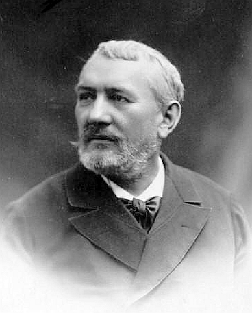 French composer Eugène Anthiome (1836-1916).